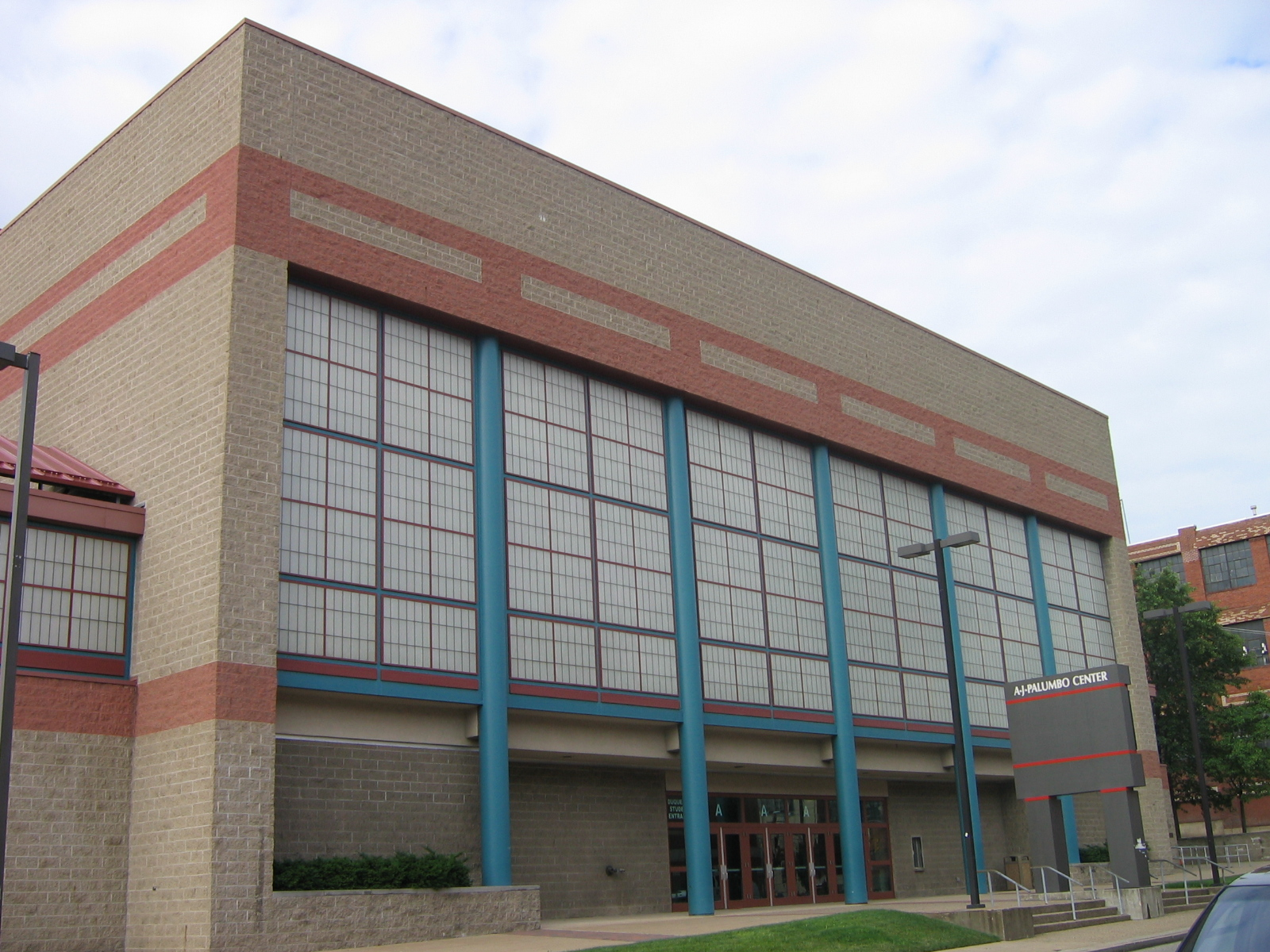 Football & Basketball Facilities Duquesne Gym